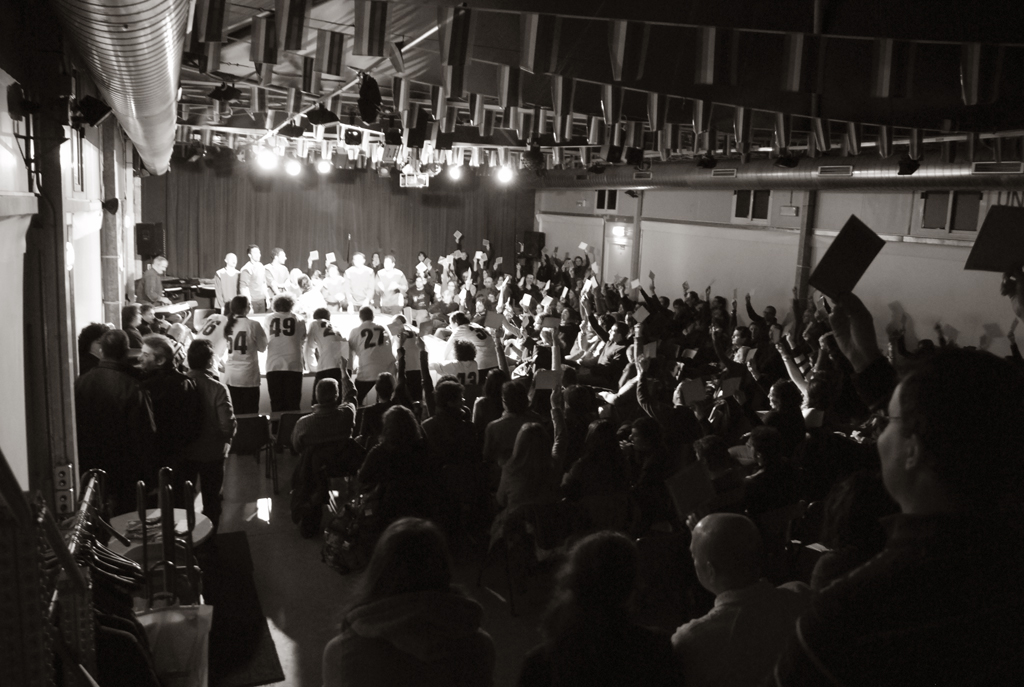 Theatresports, Florence, Italy.